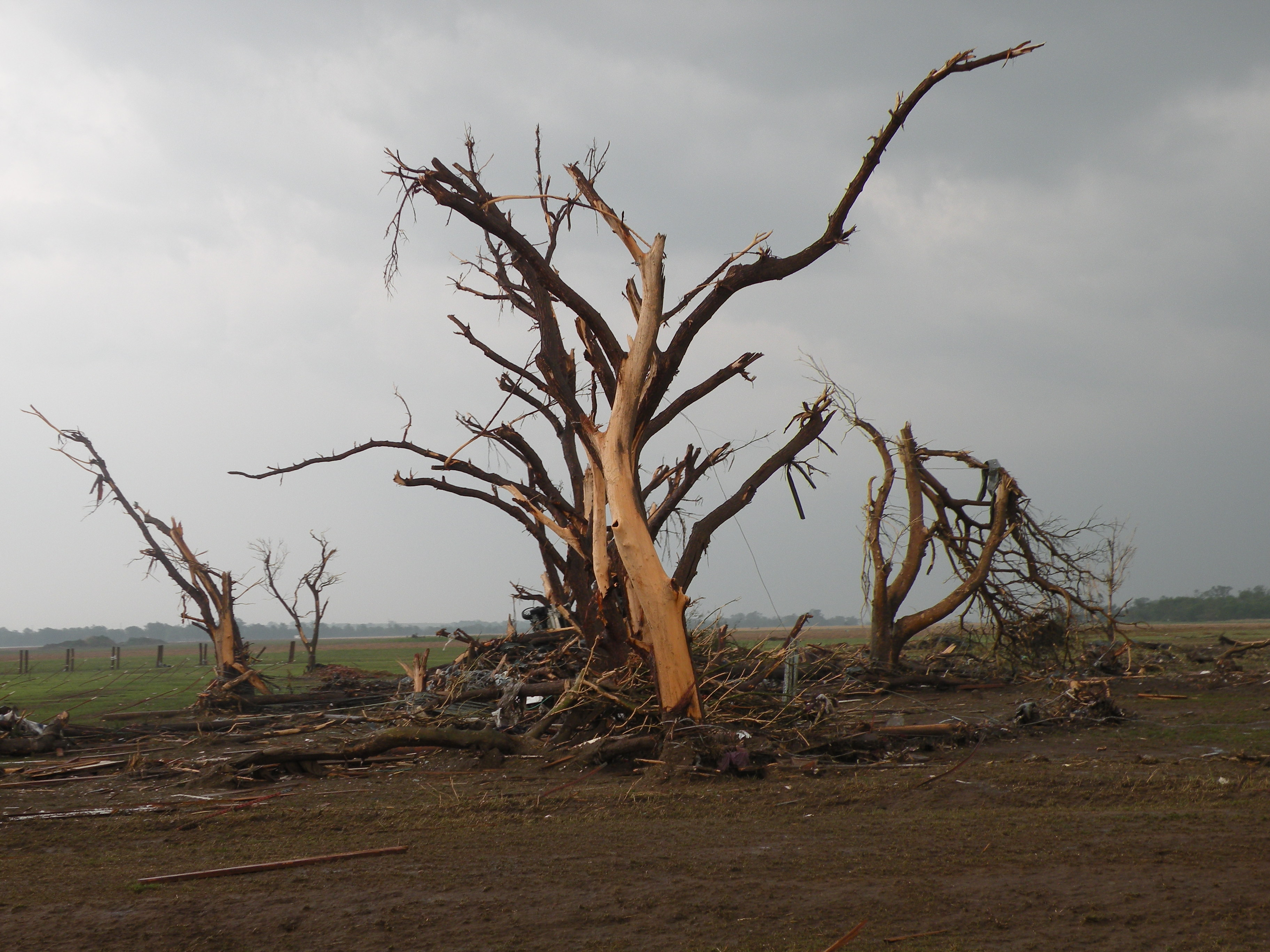 A de-barked tree cluttered with tornado debris at its base. This picture was taken north of El Reno, Oklahoma just minutes after the passage of an EF5 tornado which killed nine people.